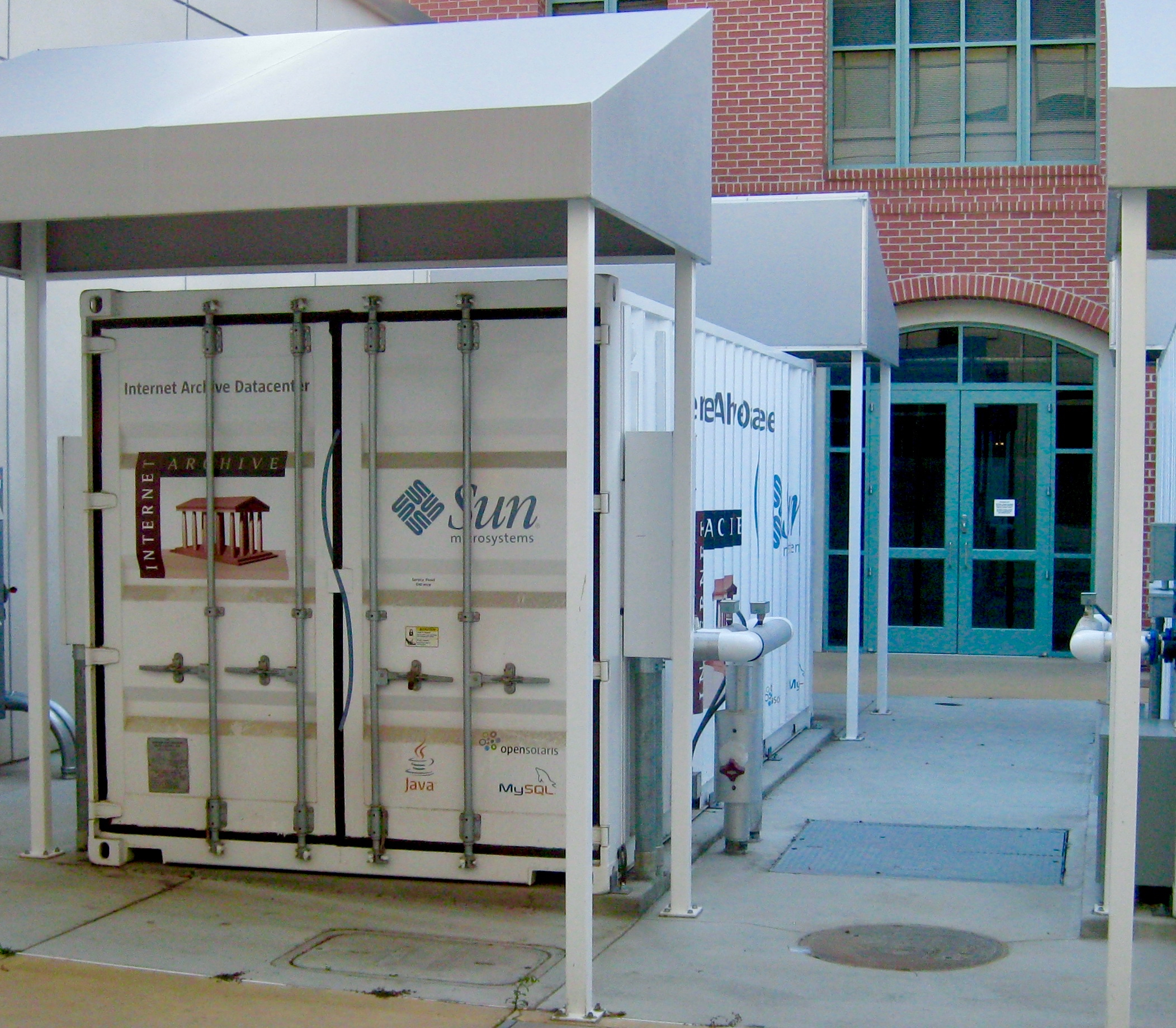 In 2009, The Internet Archive moved their primary data facility to a Sun Modular Datacenter hosted at Sun's headquarters campus in Santa Clara California.